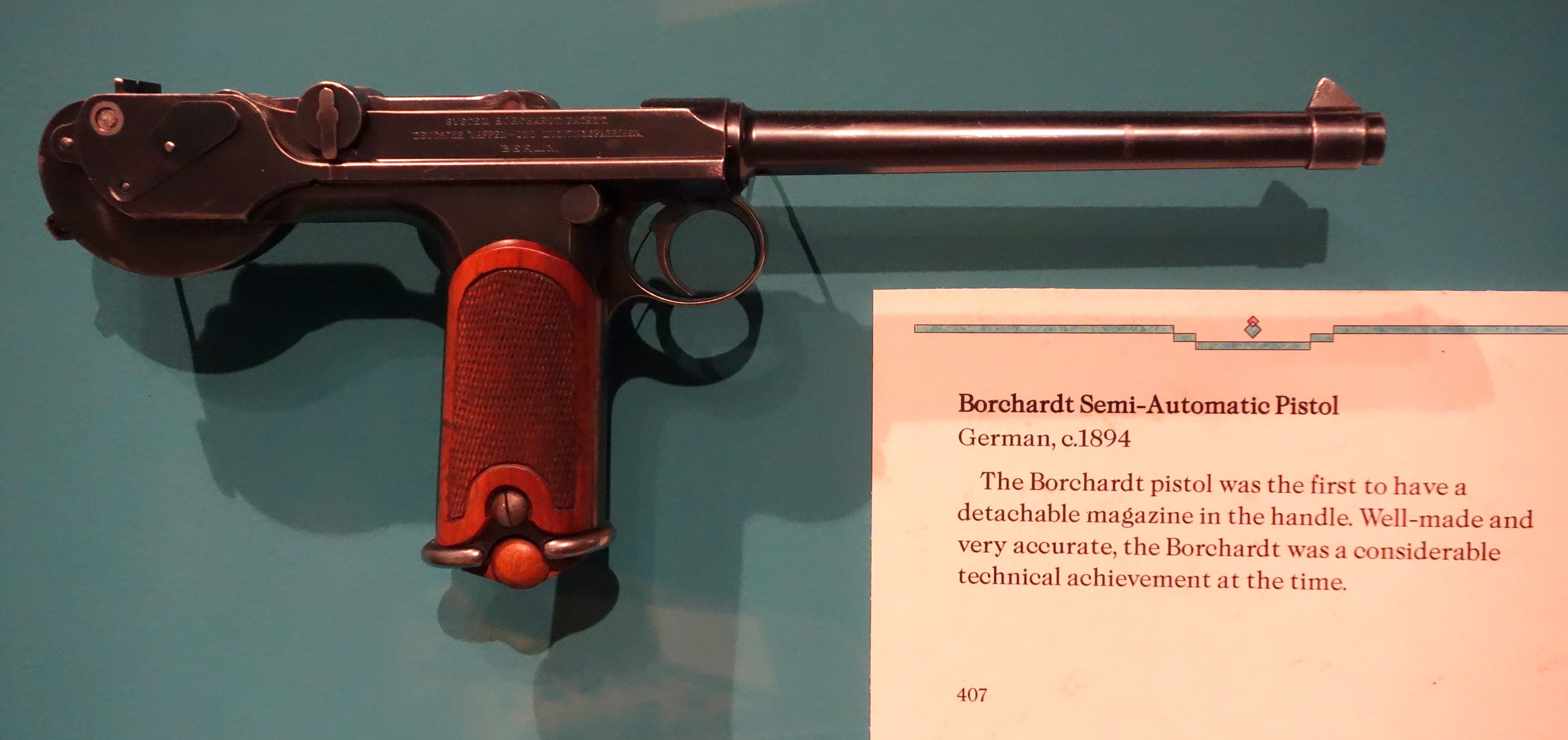 Exhibit in the Glenbow Museum, 130 9th Ave S.E., Calgary, Alberta, Canada. This work is in the public domain.